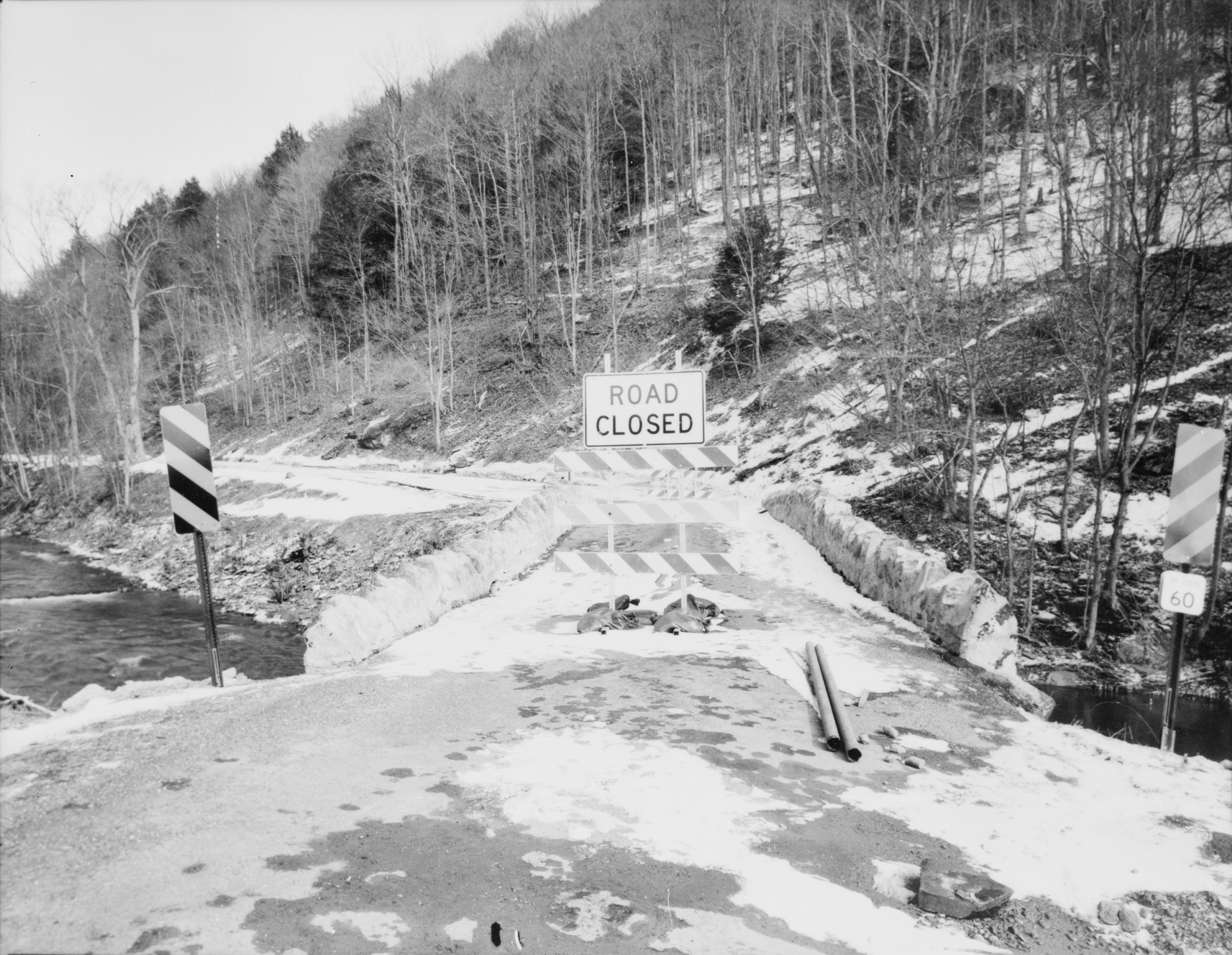 Plunketts Creek Bridge No. 3 over Plunketts Creek in Plunketts Creek Township between Barbours and Proctor, Lycoming County, Pennsylvania, USA. Original number was "HAER PA,41-BARB.V,1-5", original caption was "5. Deck view, looking northeast."